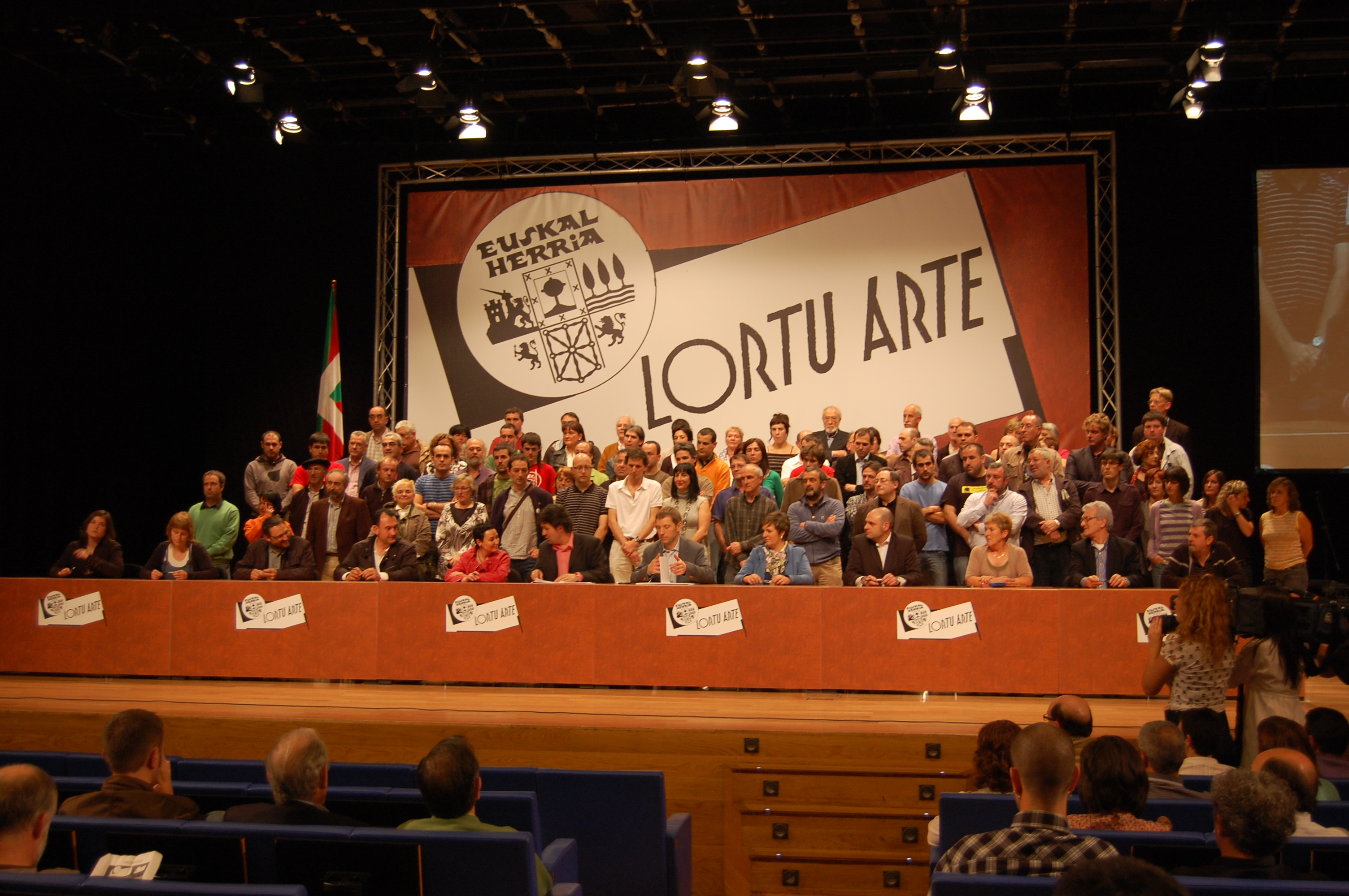 Presentation of Lortu Arte, historical accord between Eusko Alkartasuna and Ezker Abertzalea.